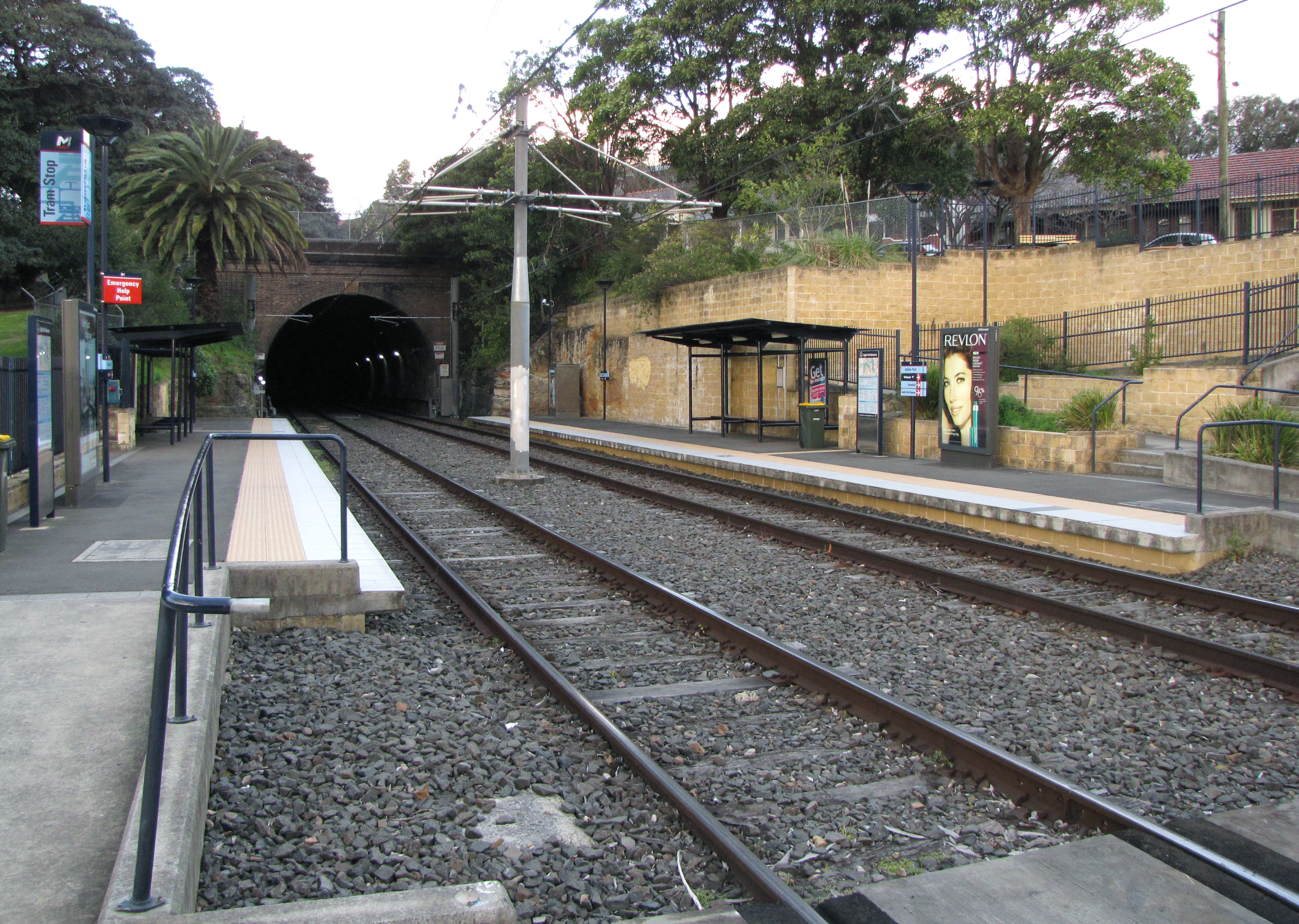 Jubilee Park tram stop.